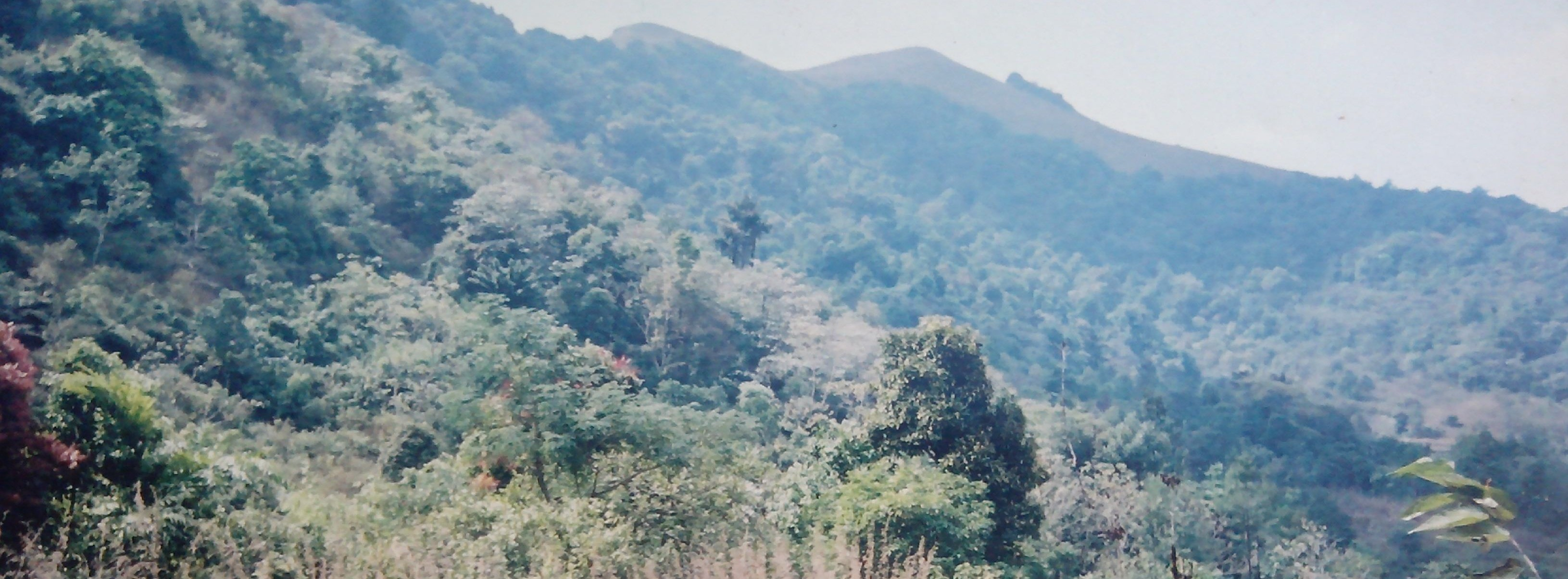 Ranipuram